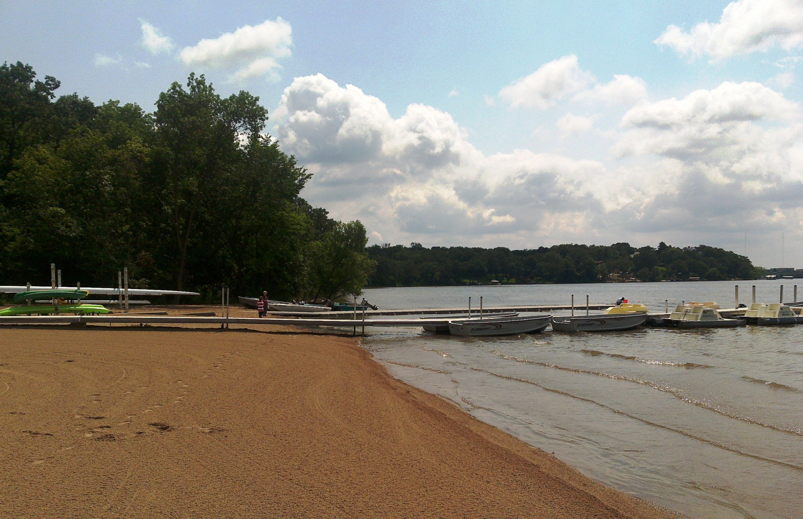 Photo from Eden Prairie, Minnesota.